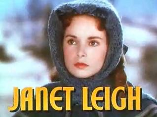 Cropped screenshot of Janet Leigh from the trailer for the film Little Women.